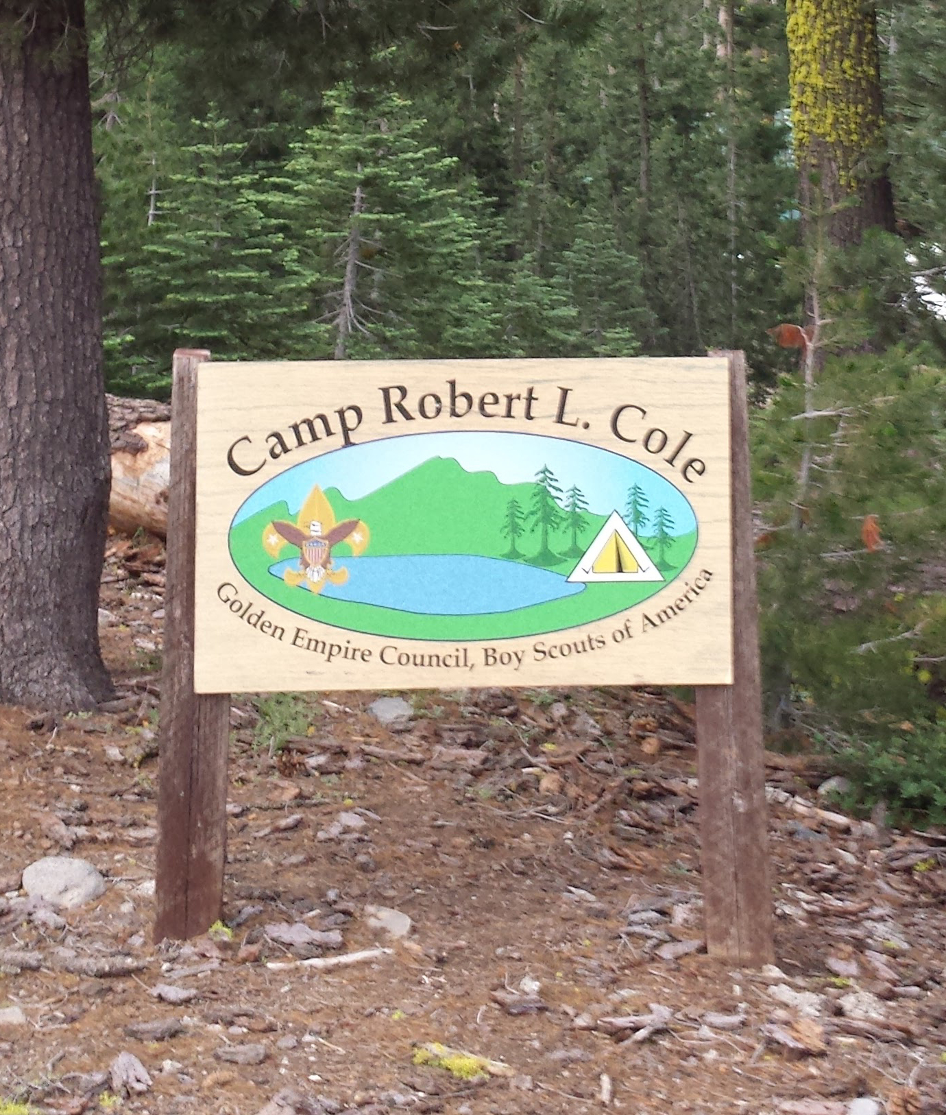 Entrance sign to Camp Robert L. Cole in the Tahoe National Forest, California.